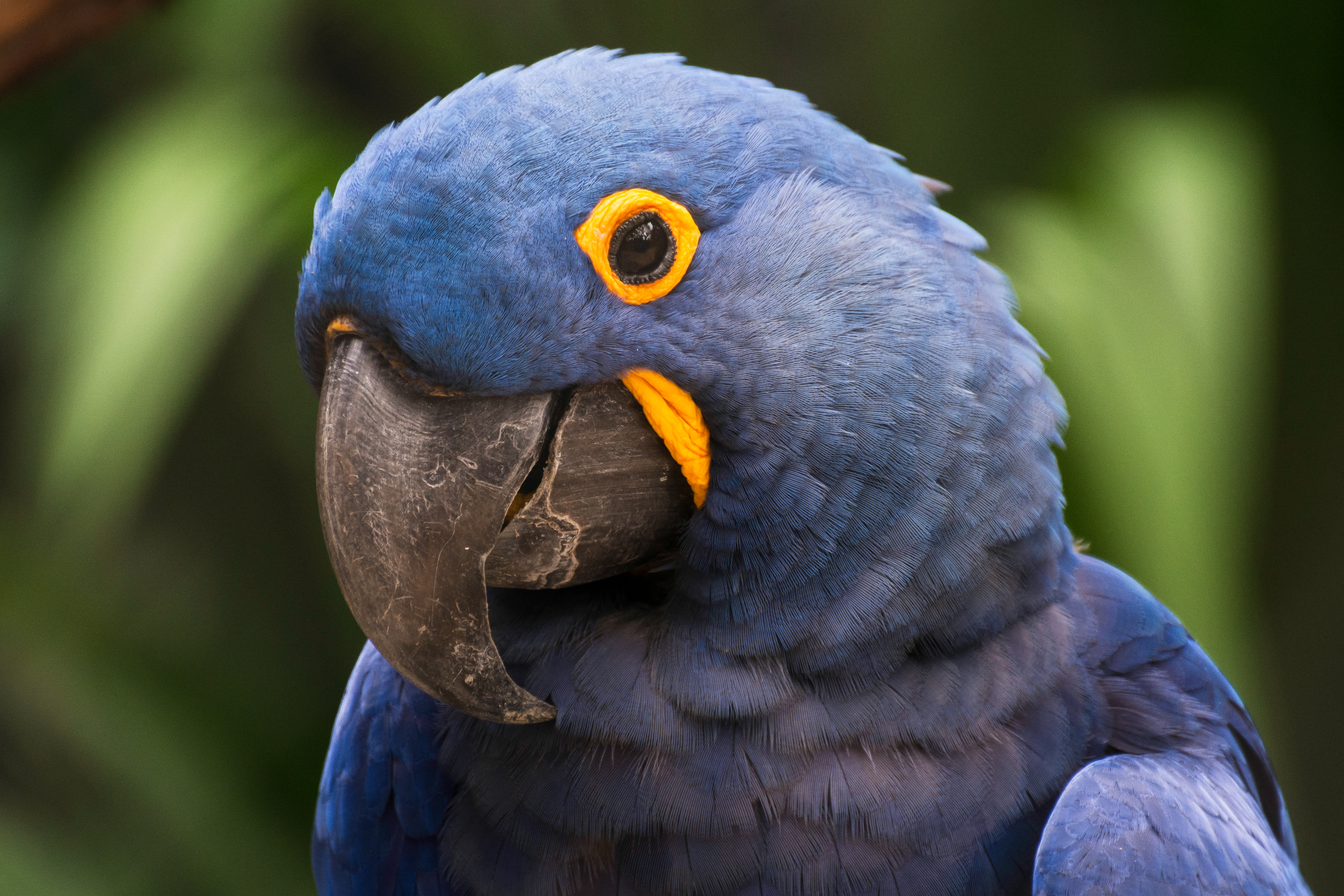 Anodorhynchus hyacinthinus, Hyacinth macaw